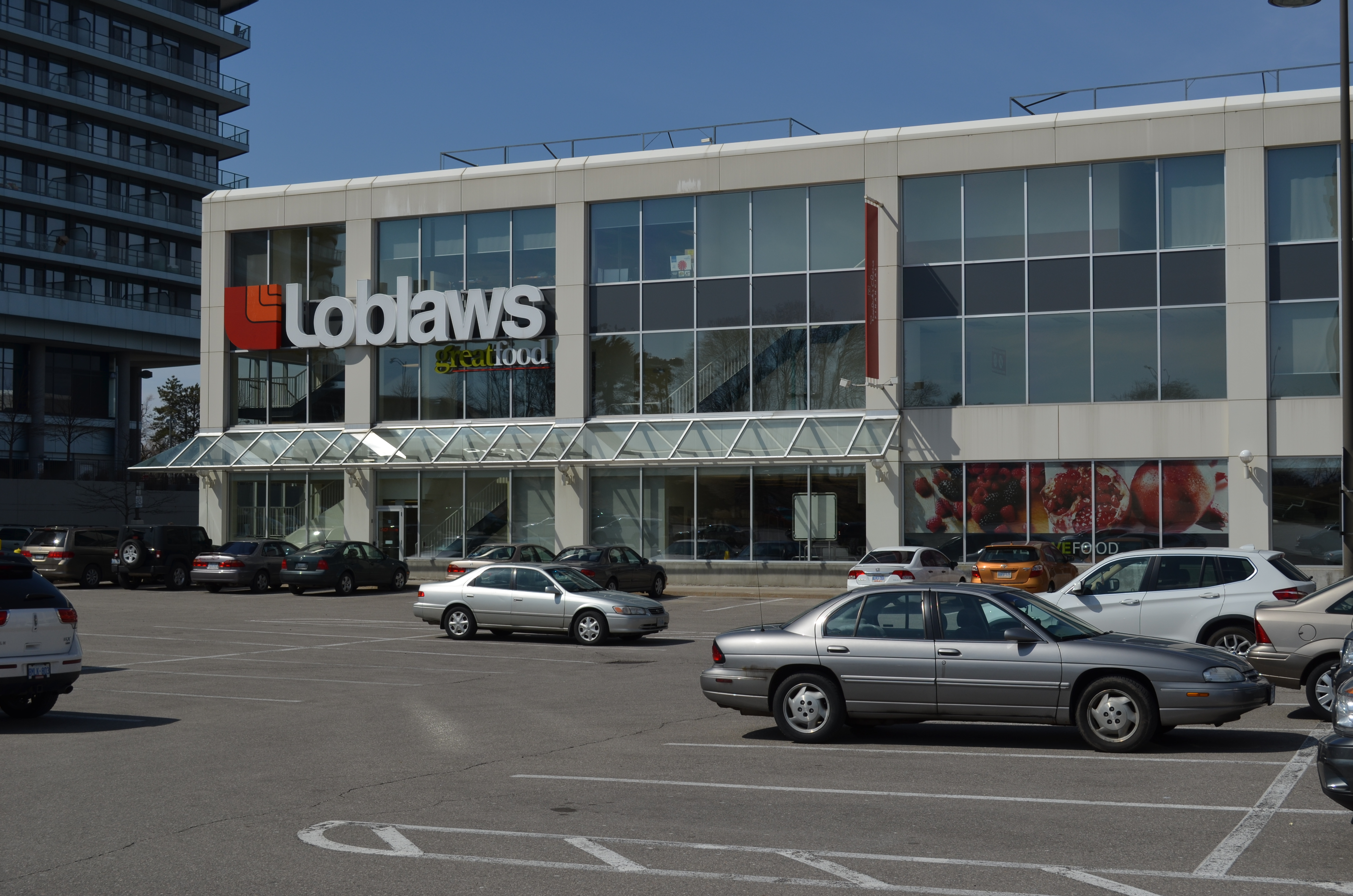 Loblaws at Bayview Village Shopping Centre.